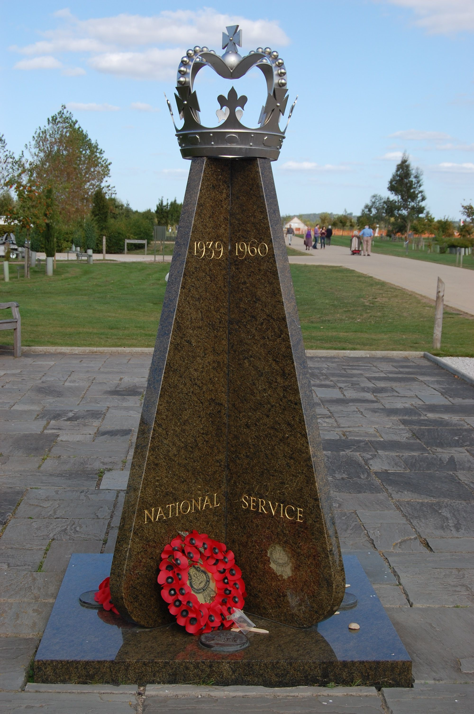 National Service (1939-1960) memorial, at the National Memorial Arboretum, Alrewas, Staffordshire, England.